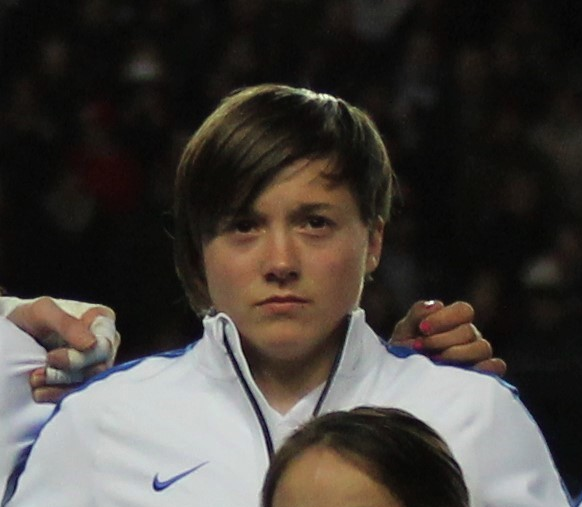 England Women's before the international friendly against USA.